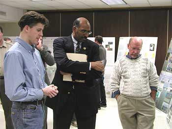 Maryland Lt Governor Mike Steele (center) watches a video and discusses Seaduck Research with Edward Lohnes (left) and Dr Matthew C Perry (right).